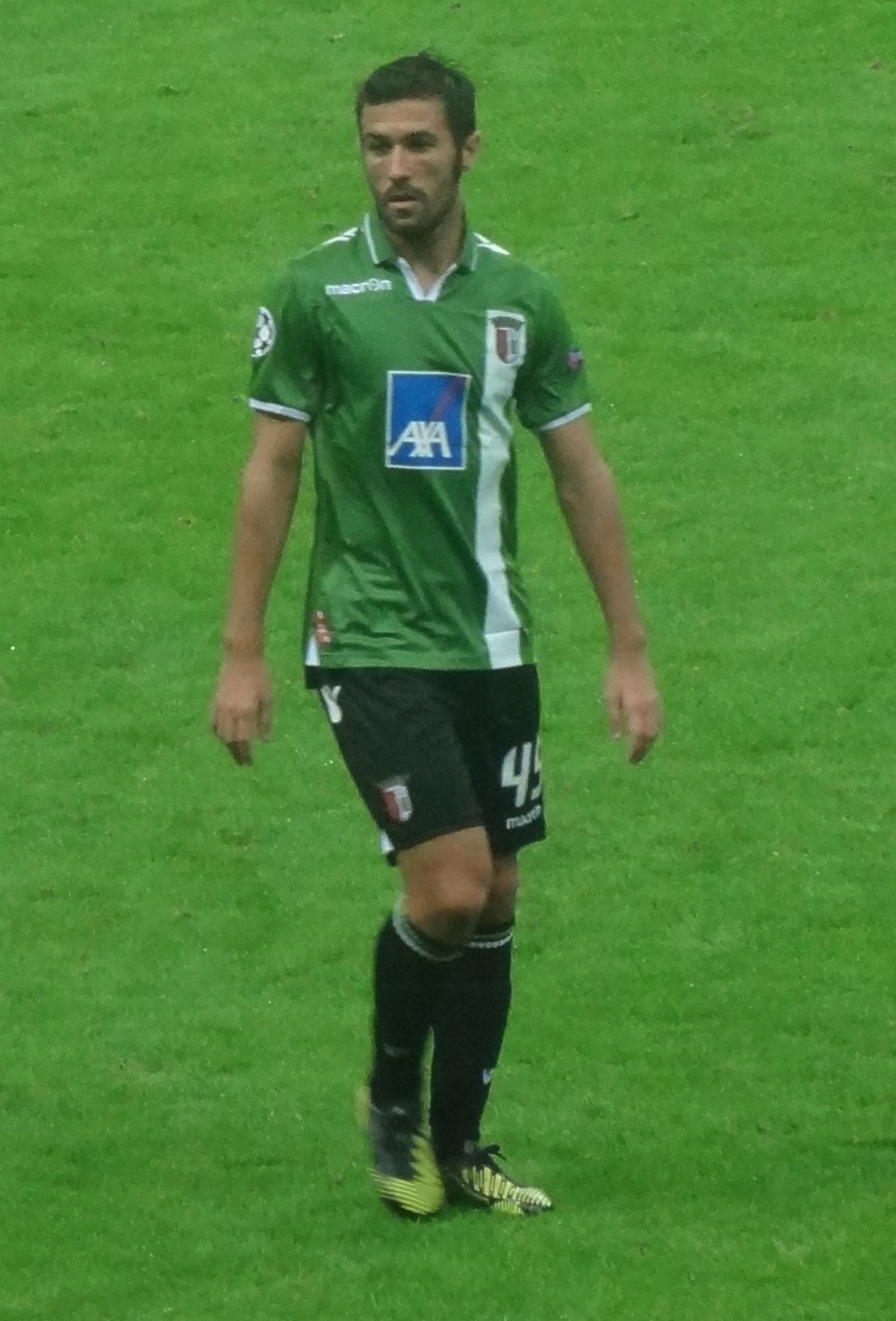 Hugo Viana